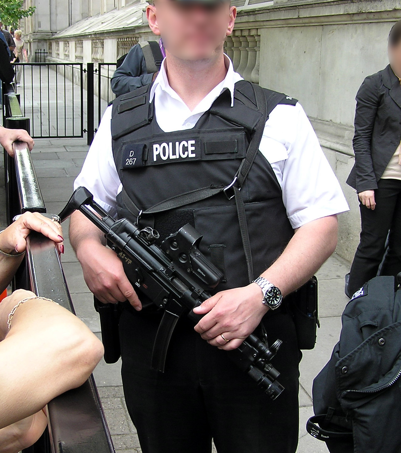 A police officer guards the entrance to Downing Street, London, home of the UK Prime Minister. Taken by Adrian Pingstone in June 2005 and released to the public domain.